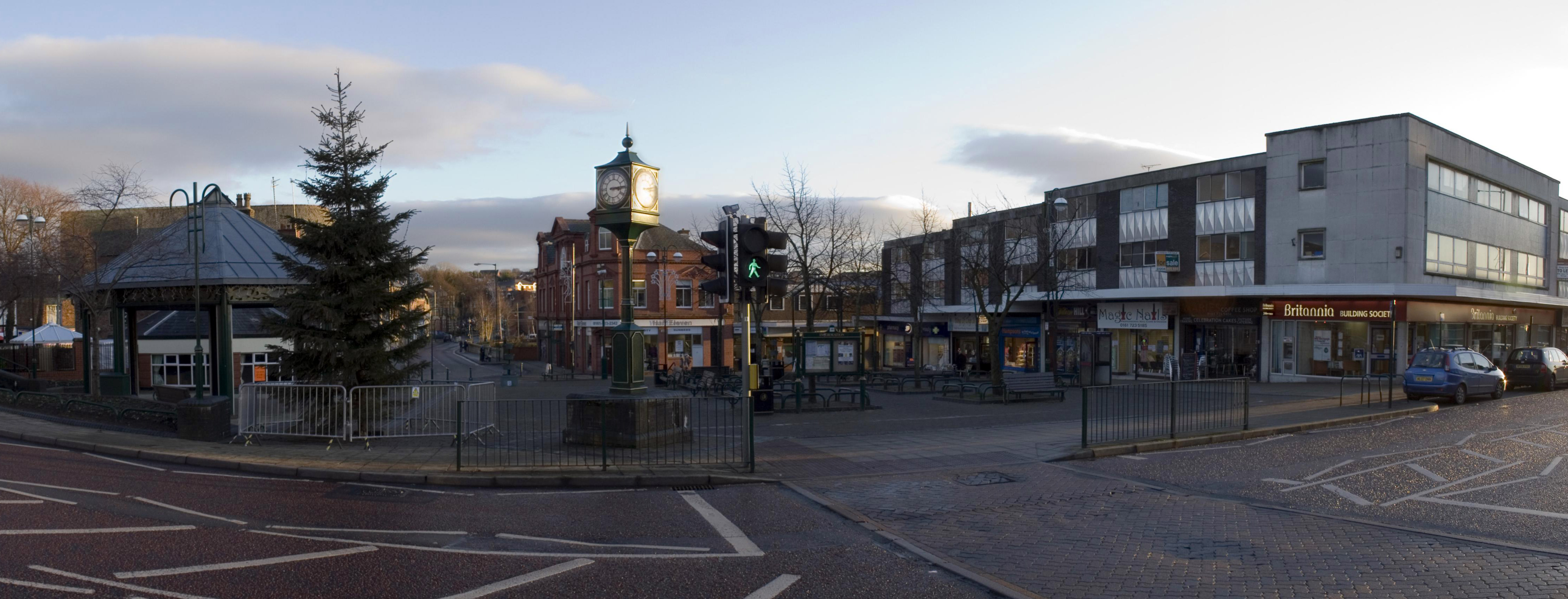 A panorama of Radcliffe Precinct, looking south with Stand Lane in the distance.